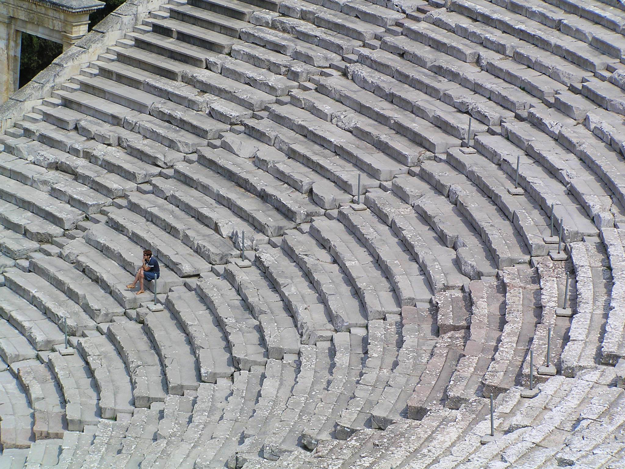 Epidaurus theatre, Greece.